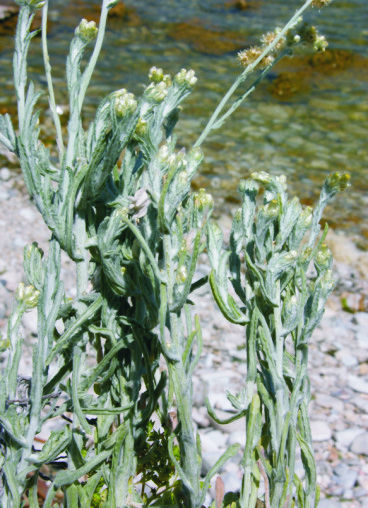 Helichrysum luteoalbum